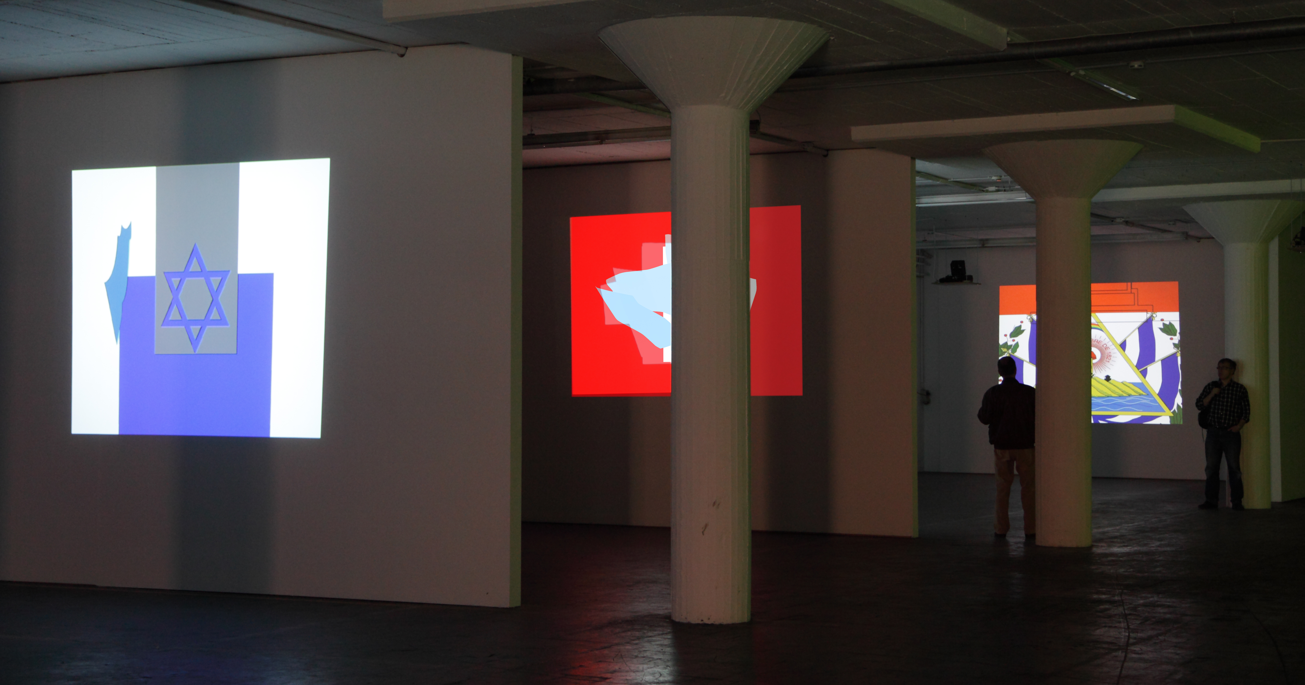 Flag Metamorphoses, participatory animation art project by Myriam Thyes, exhibition at Halle Zehn, CAP Cologne, Köln, April 2010